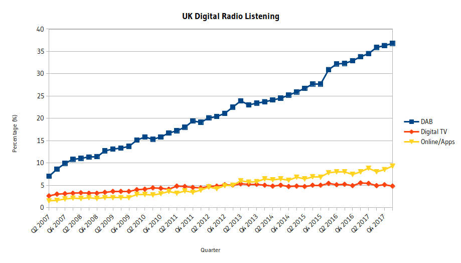 Created myself using Calc and figures from RAJAR at [1], share of Digital Radio platforms in the United Kingdom.